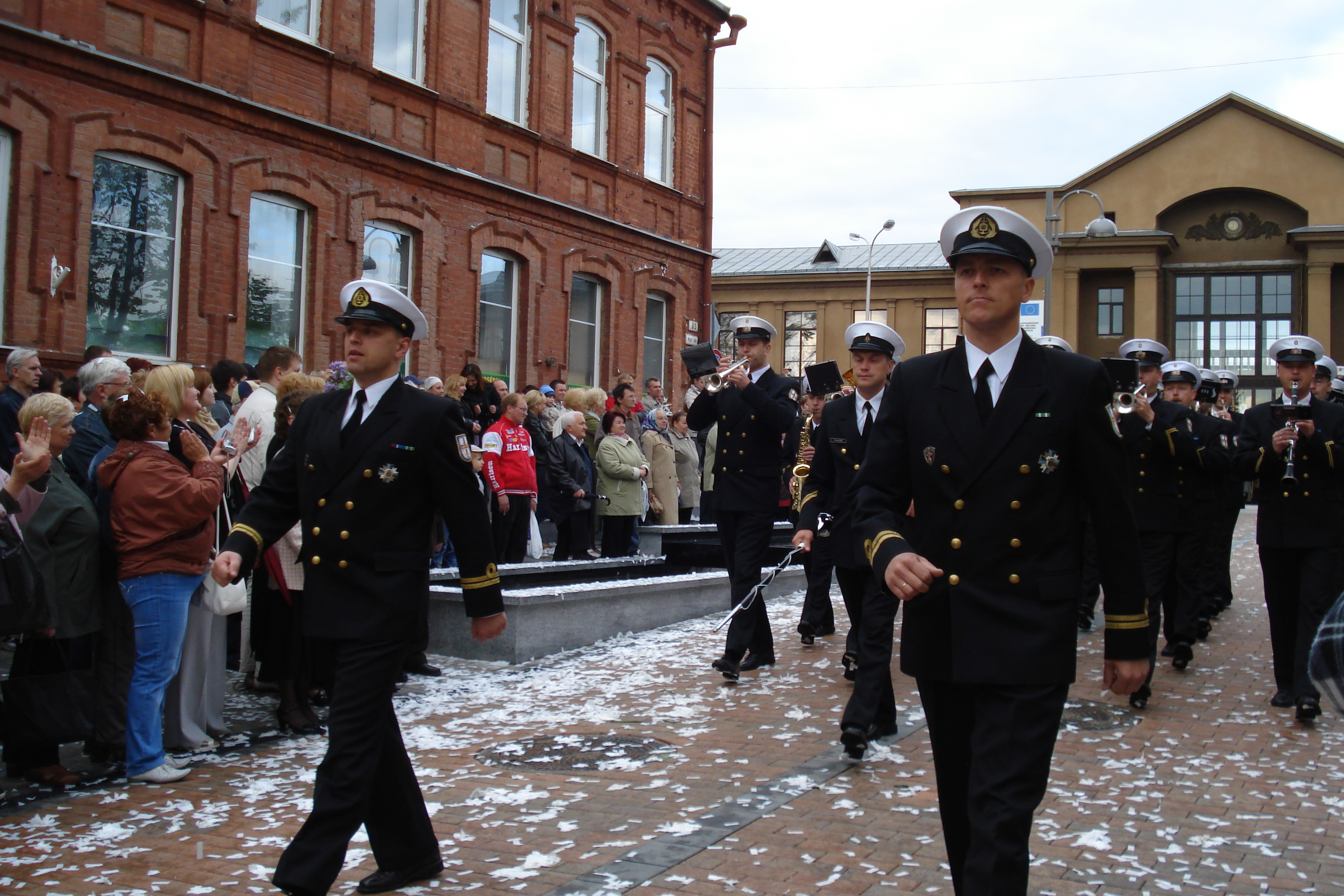 The Orchestra of the Latvian Latvian Naval Forces in the Daugavpils Town Festival